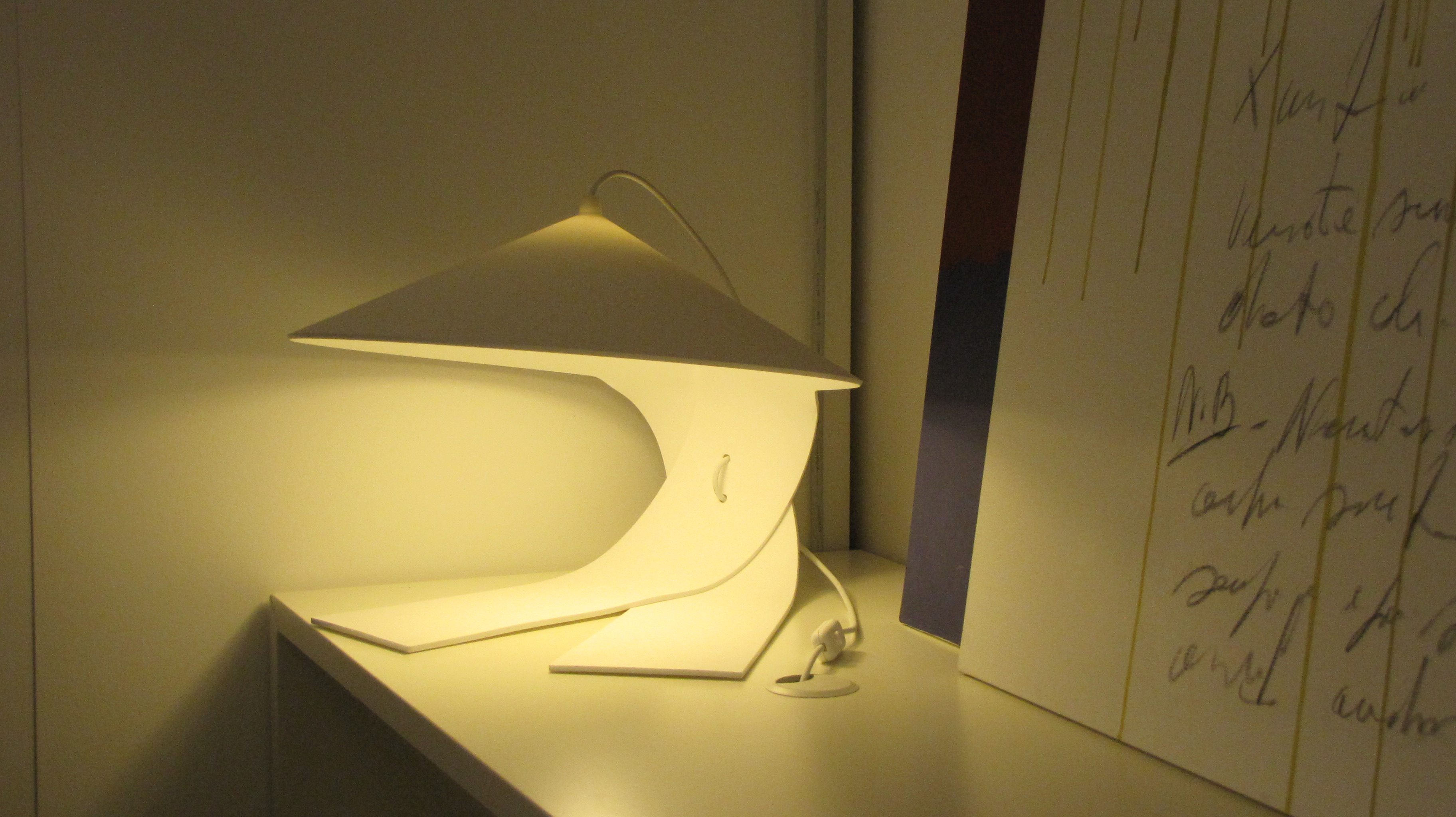 The Hanoi lamp is the winner of the grandesignEtico Award 2012